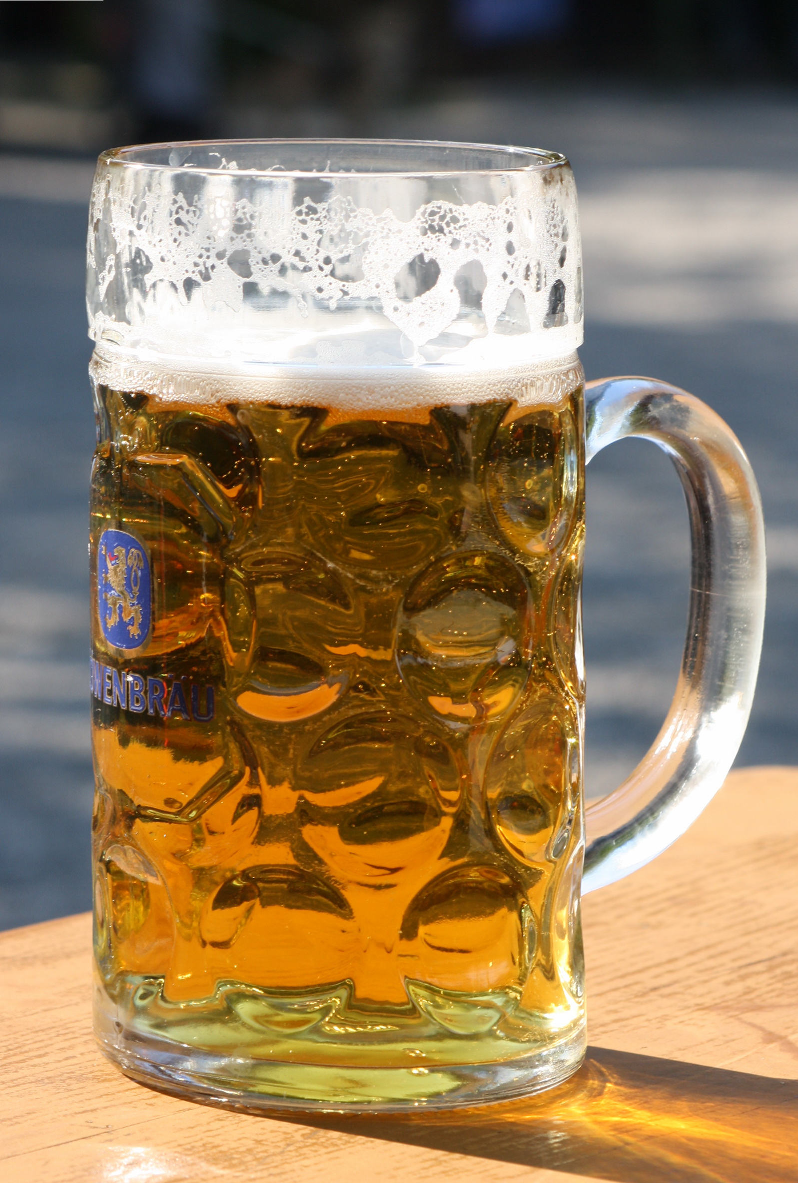 Beer mug with a liter of beer called Lowenbrau beer garden on a table.